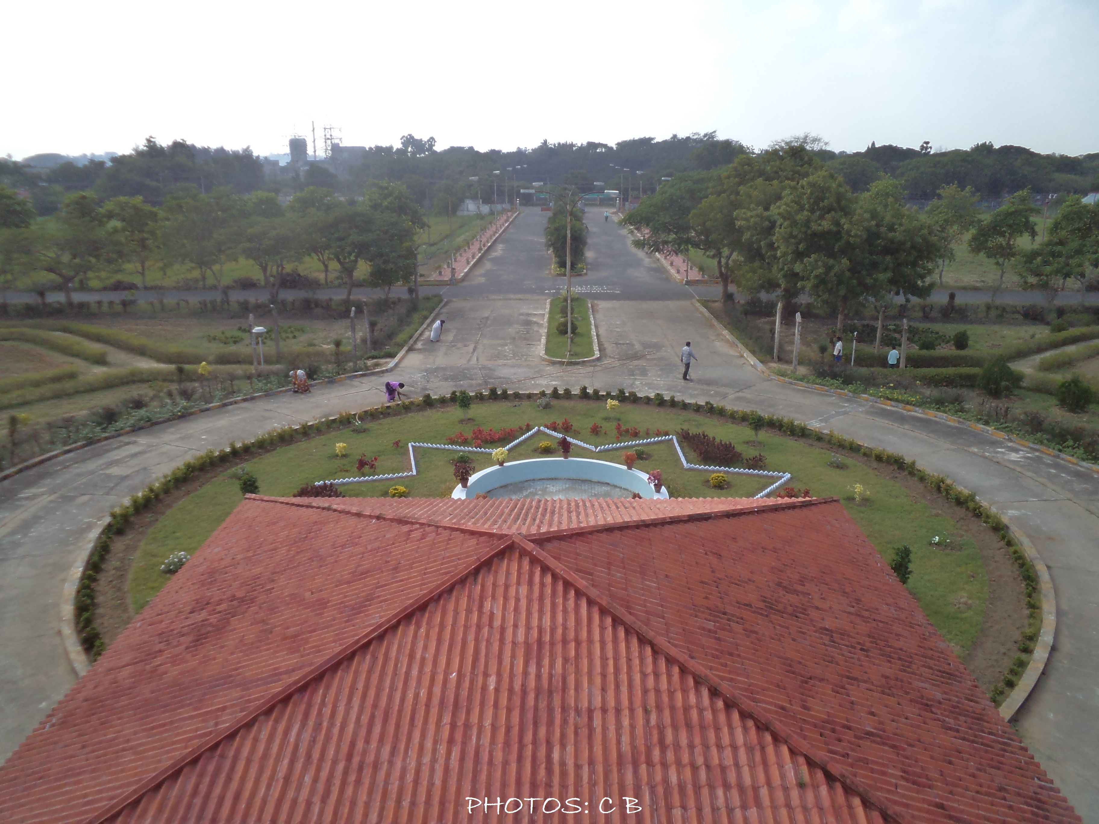 This image represents the entrance of PAJANCOA & RI campus...